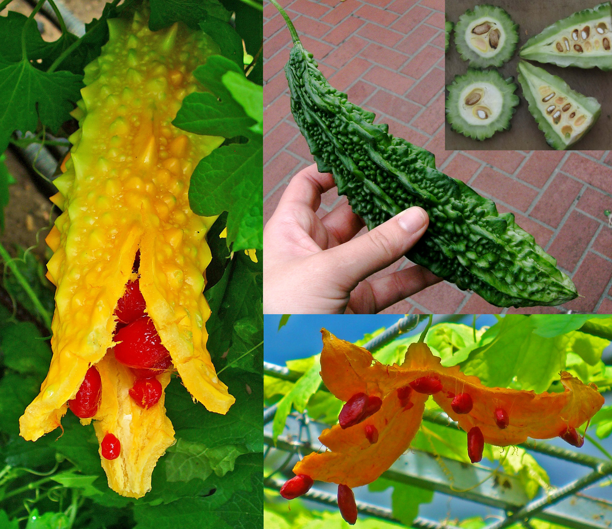 Momordica charantia (bitter gourd, bitter melon) montage. On top right a ready to eat (immature stage) fruit, at left and bottom a maturing and fully mature, dehiscent fruit, exposing the seeds with red arile.